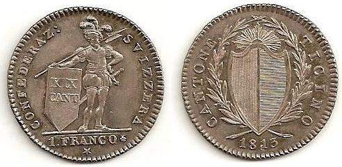 1 Franc of Ticino (Switzerland) from 1815